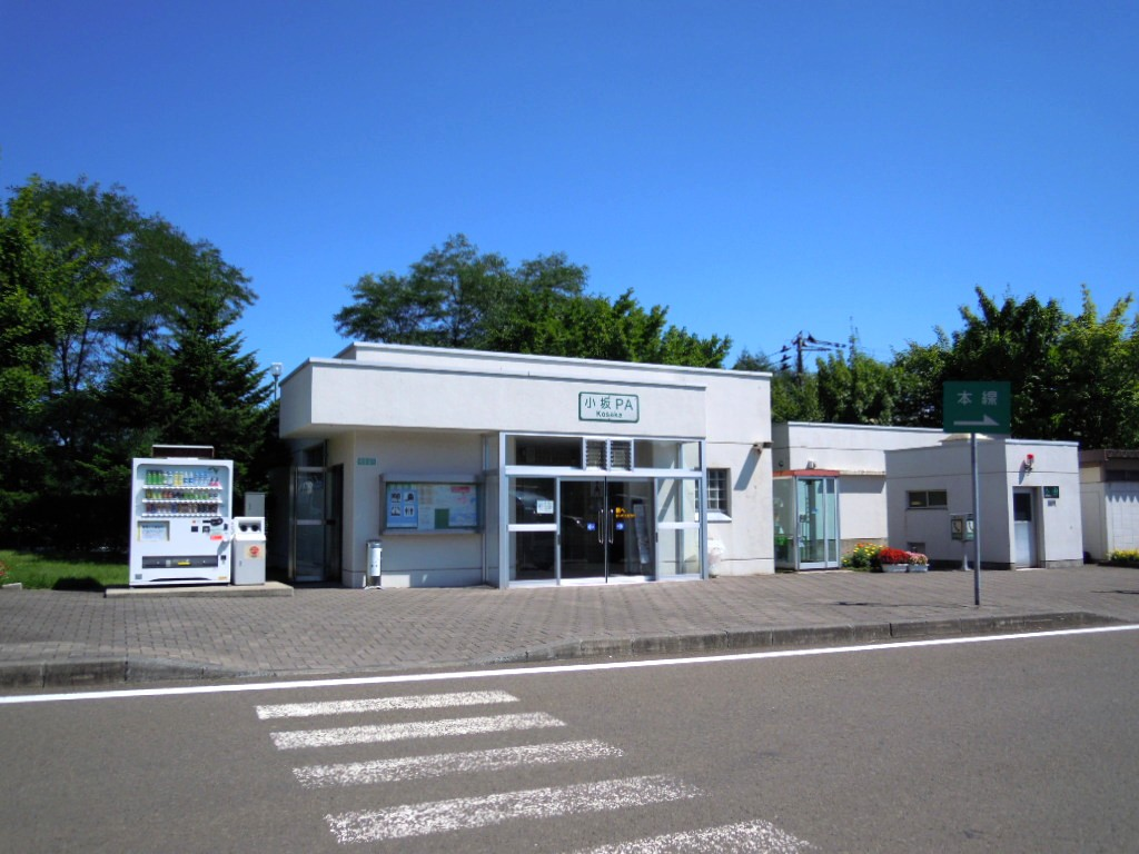 This rest area, Kosaka Parking Area（for Tokyo）, is on Tohoku Expressway, in Kosaka Town, Akita Prefecture, Japan.